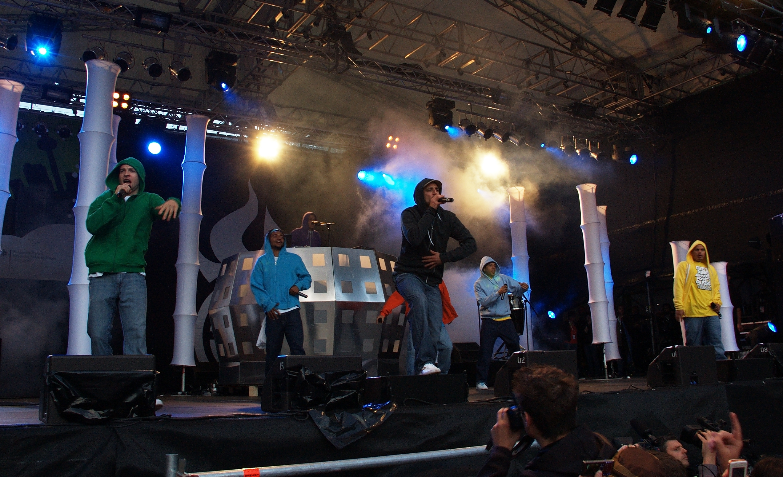 Culcha Candela live at the festival Berlin2008 (